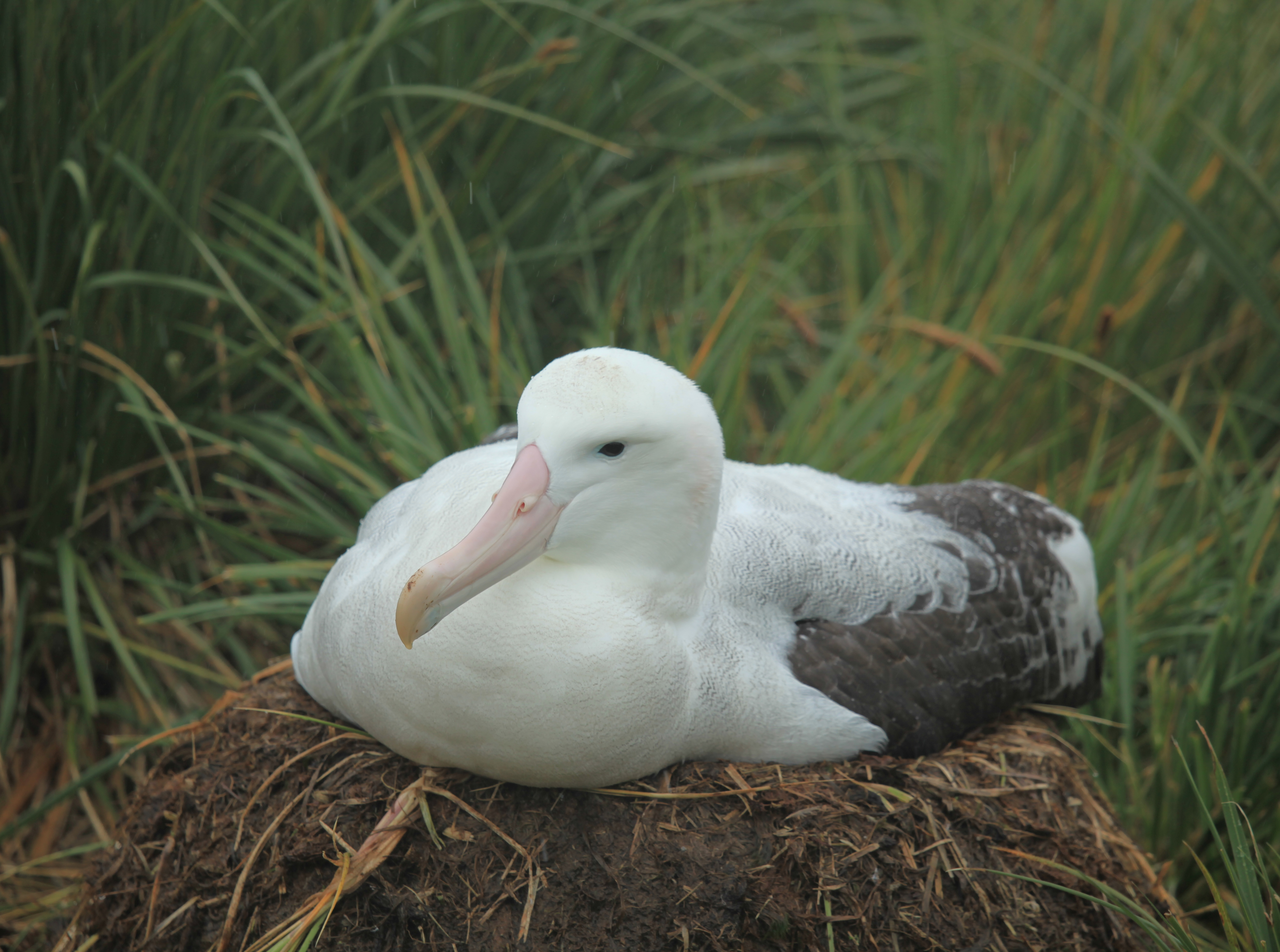 Wandering Albatross nest on Prion Island, South Georgia